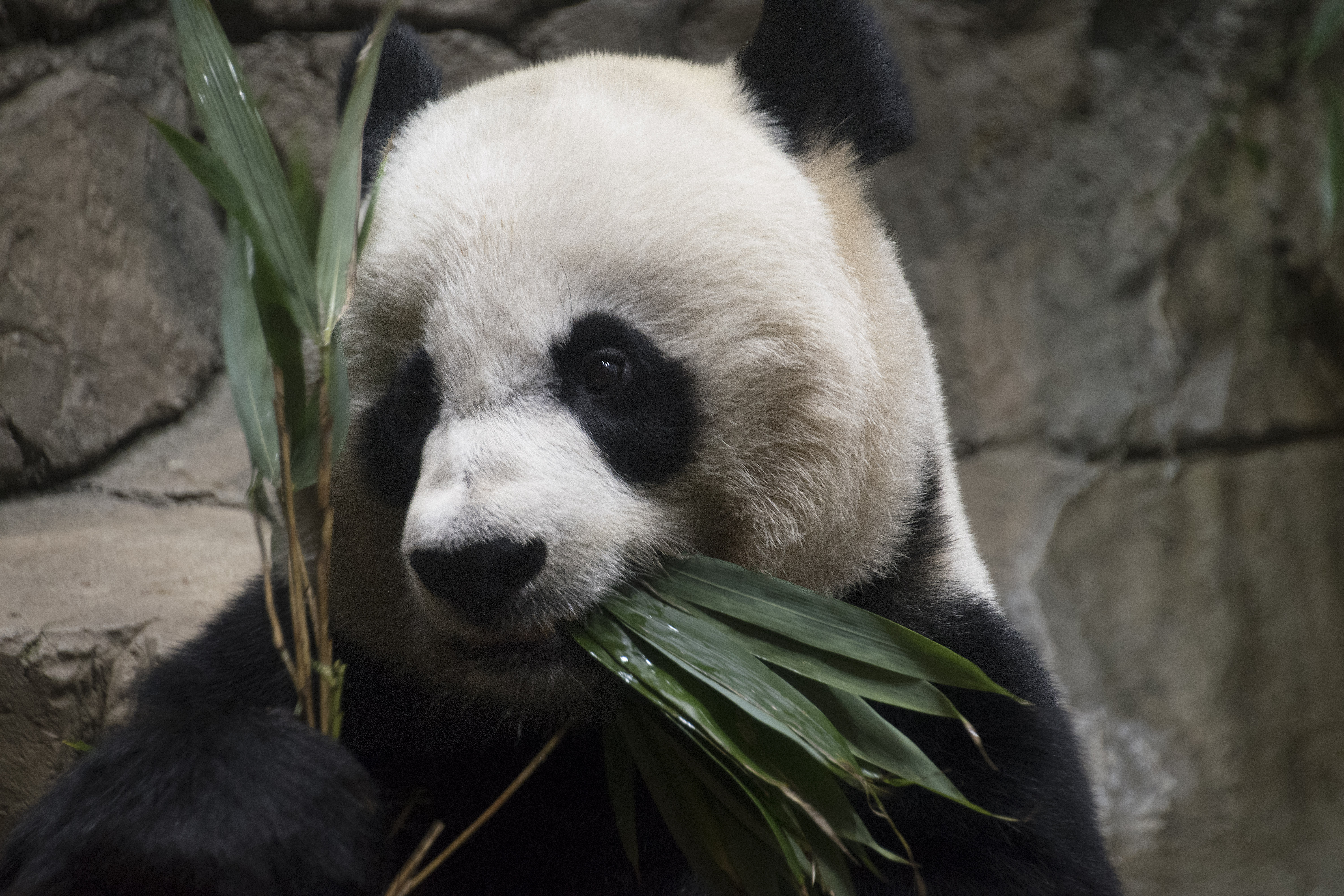 Mei Xiang ('beautiful fragrance' in Chinese) is a female giant panda who lives at the National Zoo in Washington (DC). Mei Xiang was born on July 22, 1998, at the China Conservation and Research Center for the Giant Panda in Wolong, Sichuan Province; she weighs about 230 pounds. DSC_3932